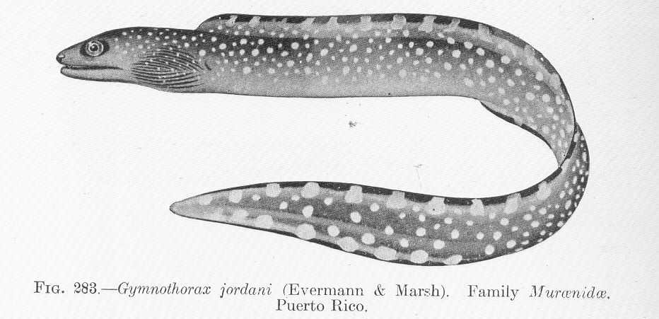 Gymnothorax jordani (Evermann & Marsh). Family Muraenidae. Puerto Rico Subject: Morays Tag: Fish